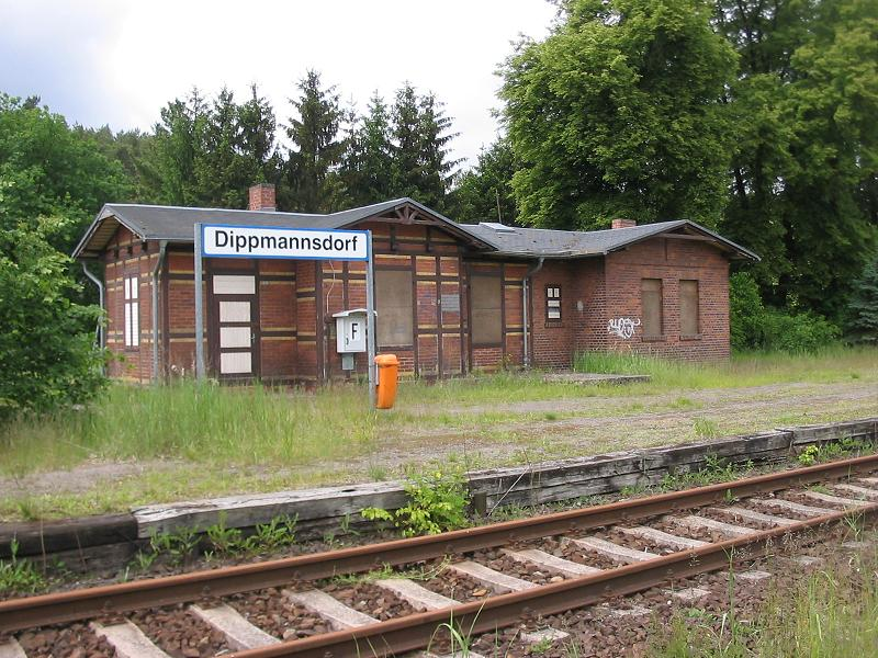 Closed railway „Brandenburgische Städtebahn“, former station Dippmannsdorf. The village Dippmannsdorf is a part of the town Belzig in the state Brandenburg, Germany.